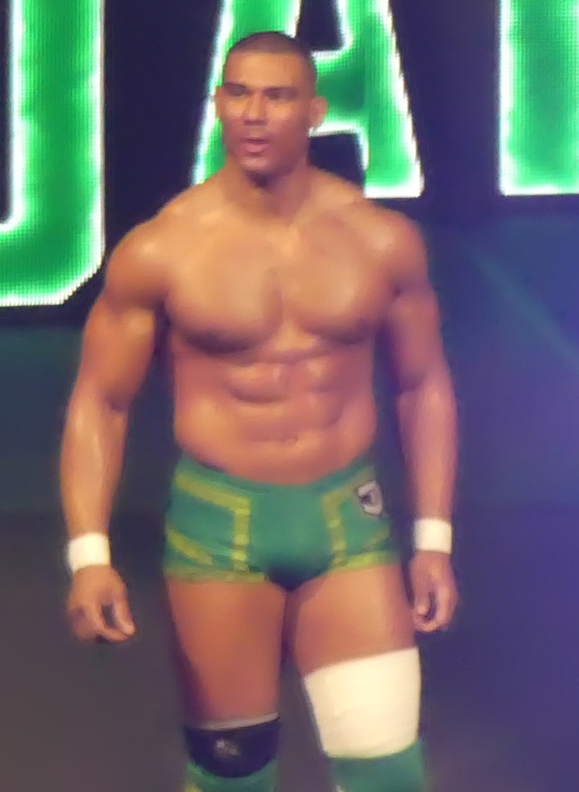 Professional wrestler Jason Jordan making his entrance in December 2017